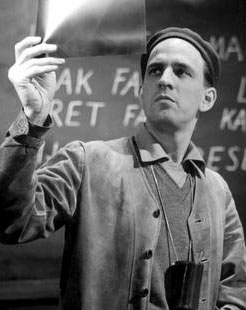 Ingmar Bergman (1918-2007), Swedish stage and film director. Photo: Taken during the production of Wild Strawberries (Smultronstället) (1957). Svensk Filmindustri (SF) press photo. Source: Svenska filministitutet.